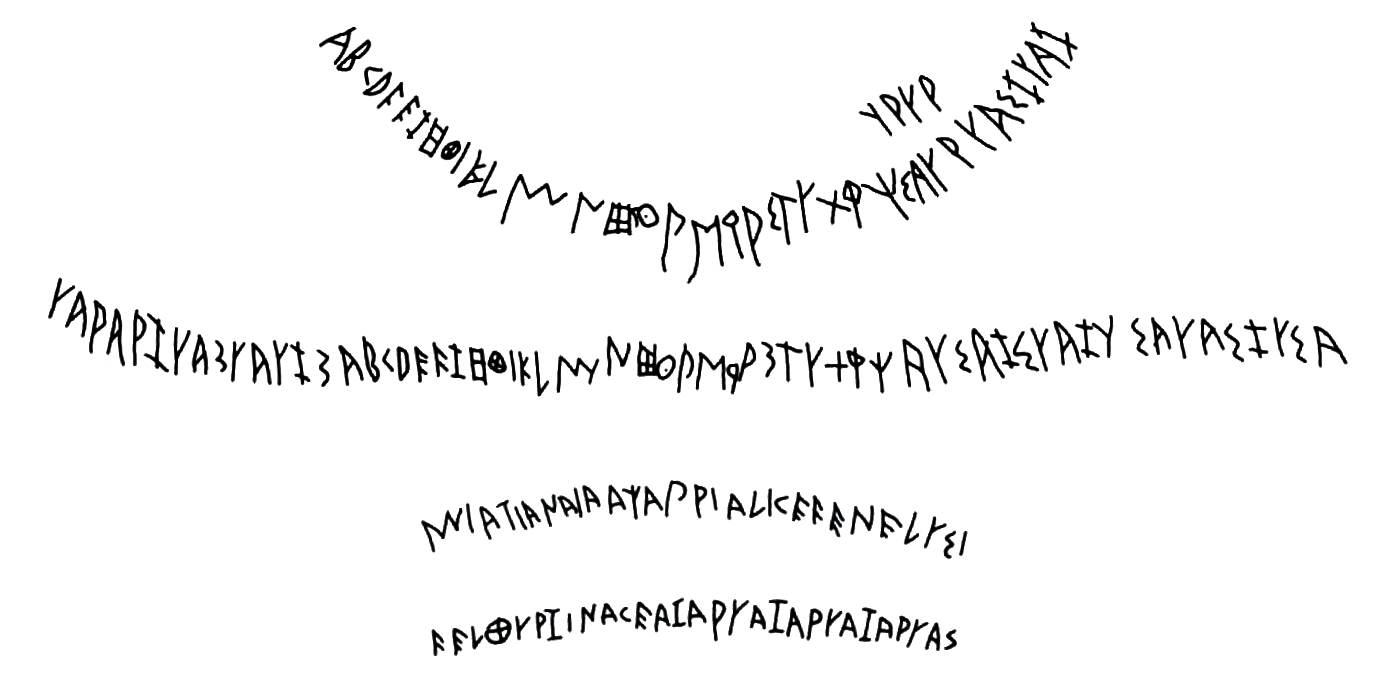 Etruscan inscription on a bucchero amphora from Formello with two alphabets URUR A B C D V E Z H TH I K L M N X O P Ś Q R S T U X PH CH SAURUAS ZUAZ UARAR ZUASUAUZS A B C D E V Z H TH I K L M N X O P Ś Q R S T U X PH CH AUSAZSUA ZUSA UAS ZUSA MI ATIANAIA ACHAPRI ALICE VENELUSI VELTHUR ZINACE AZARU AZARU AZARUAS